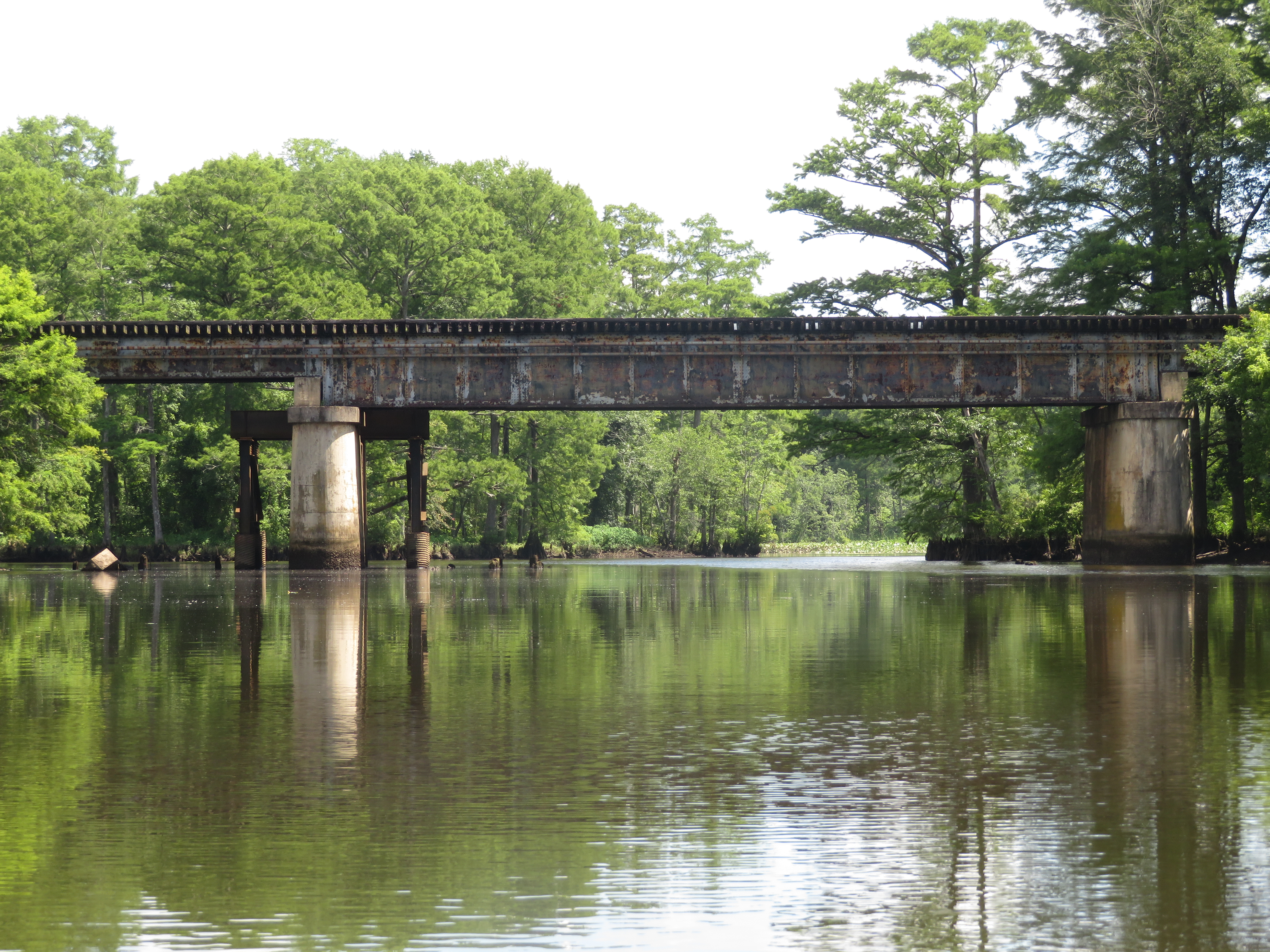 CSX Railroad Bridge over Diascund Creek in Virginia, looking upstream.